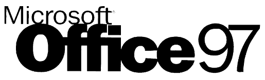 Microsoft Office 97 wordmark